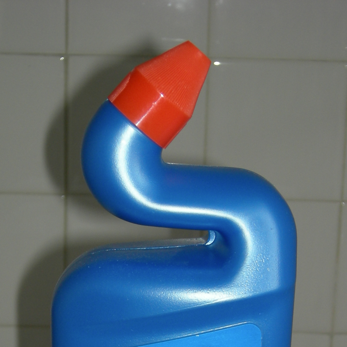 The "Toilet Duck" product as seen in Hong Kong.